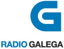 Logotipo Radio Galega